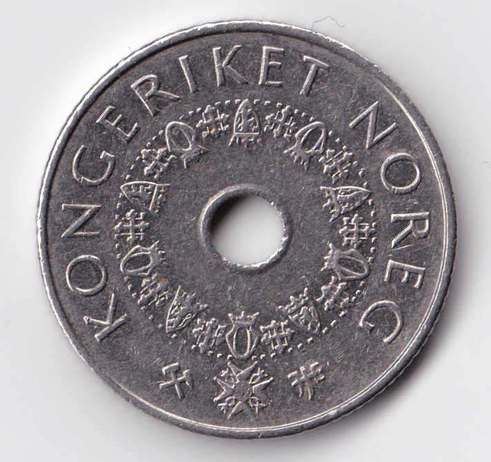 First edition Norwegian 5-krone